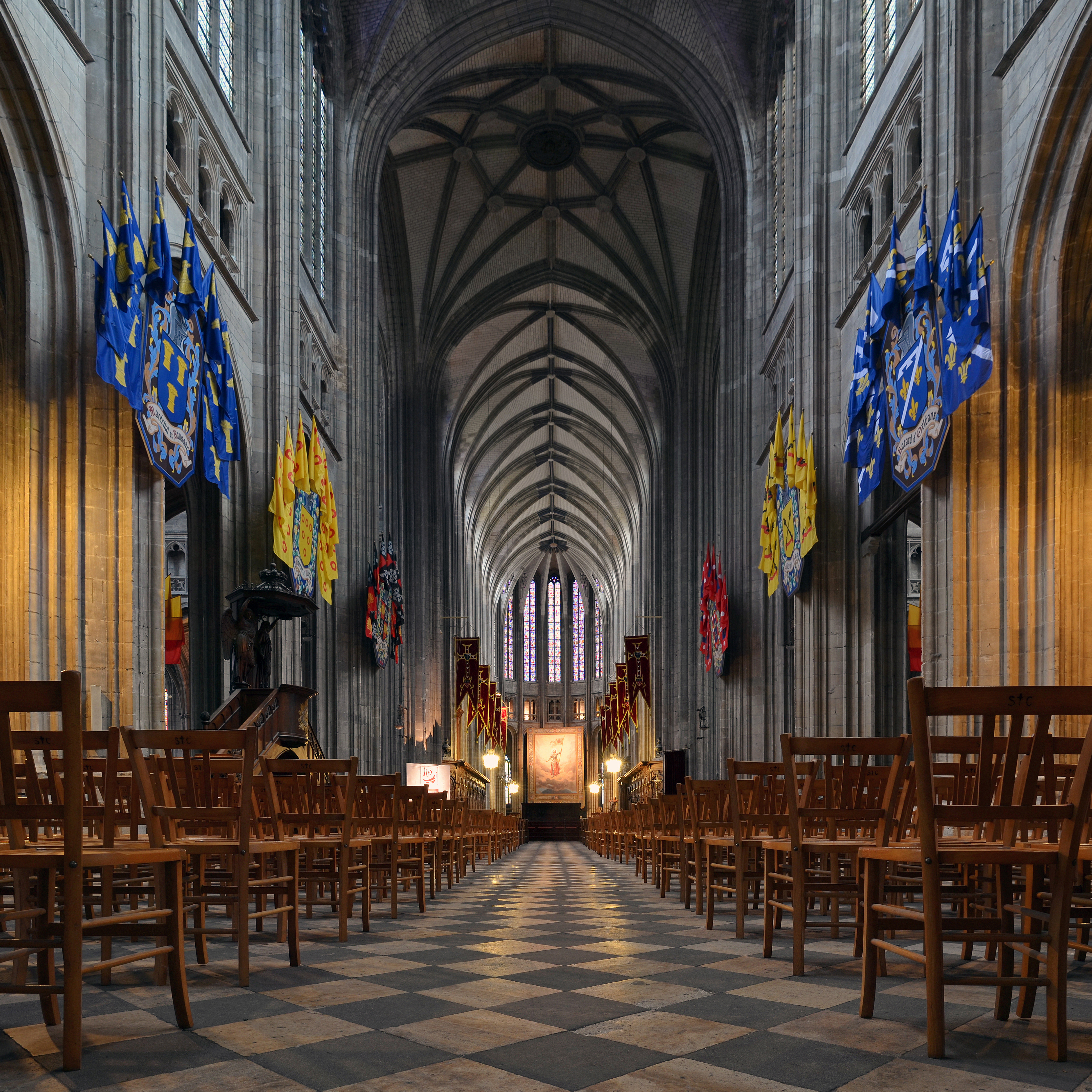 Choir and nave of the Orléans Cathedral - Orléans, Loiret, France. .